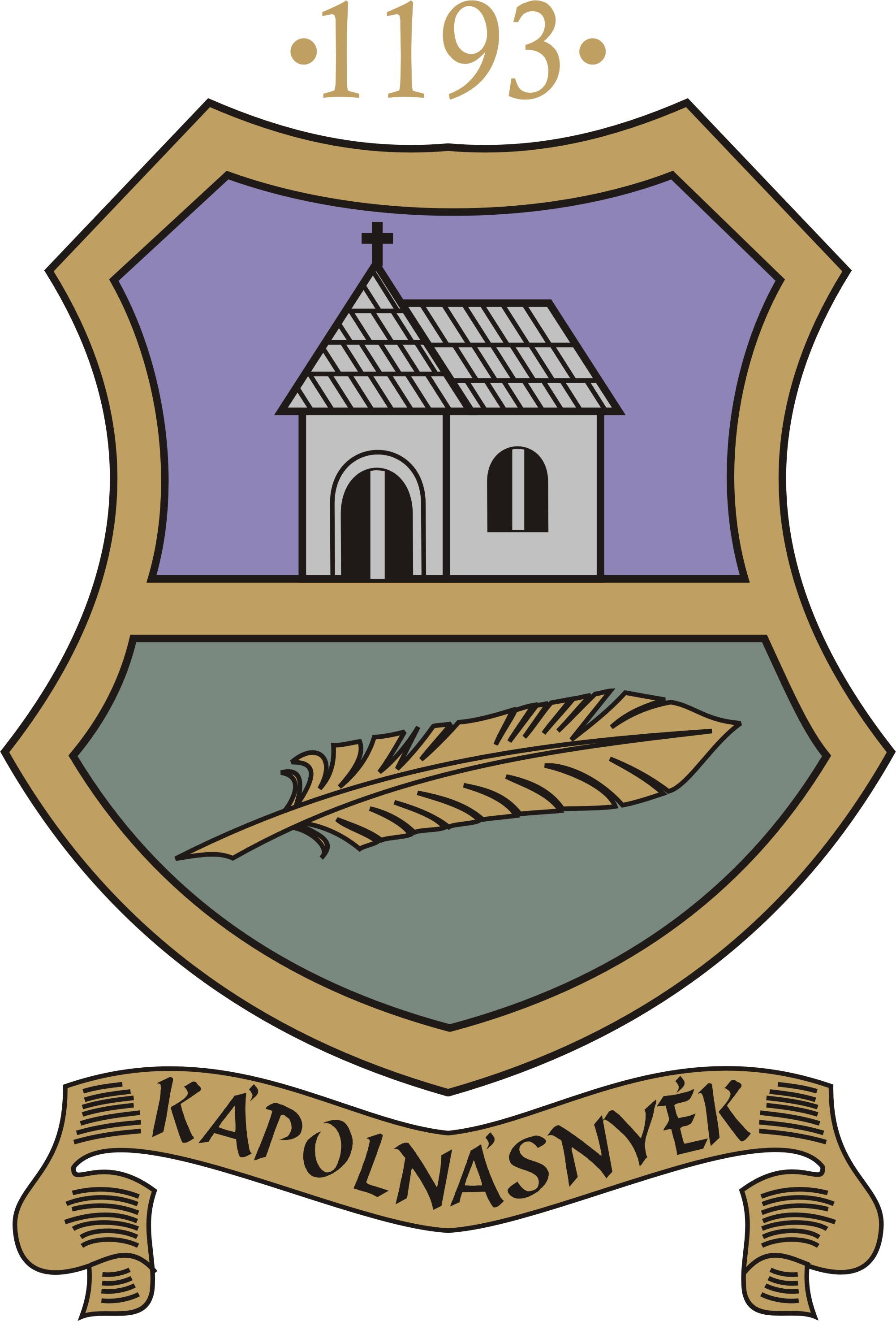 Coat of arms of Kápolnásnyék, Hungary